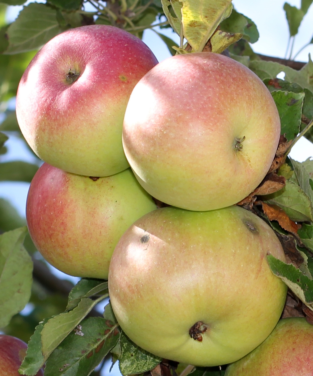 Apples on an apple-tree. Ukraine.